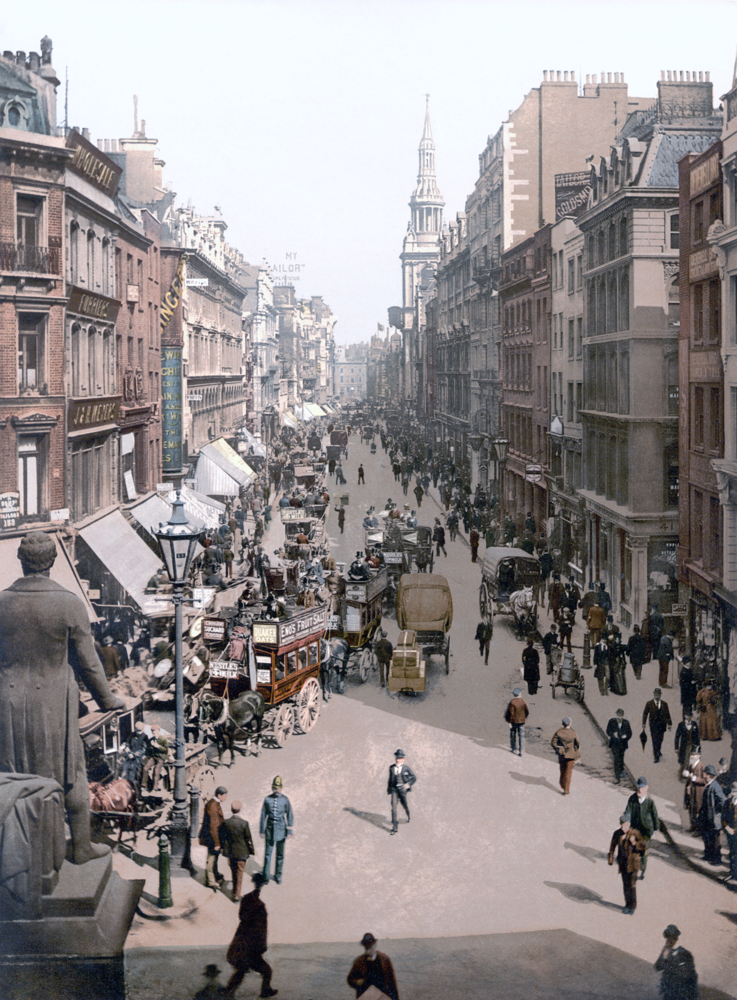 Cheapside, London, England 1 photomechanical print : photochrom, color.